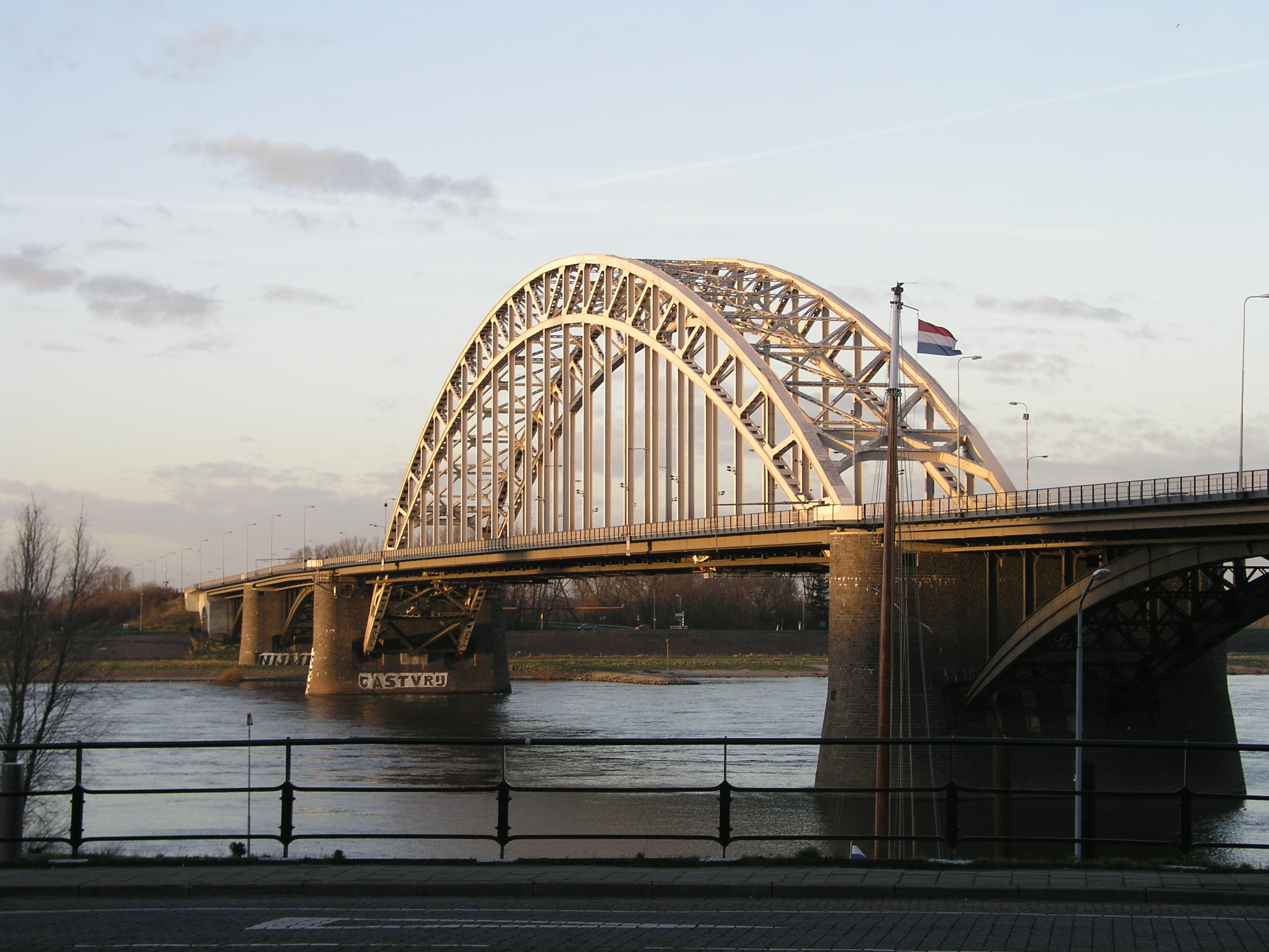 Waal bridge in Nijmegen (The Netherlands)